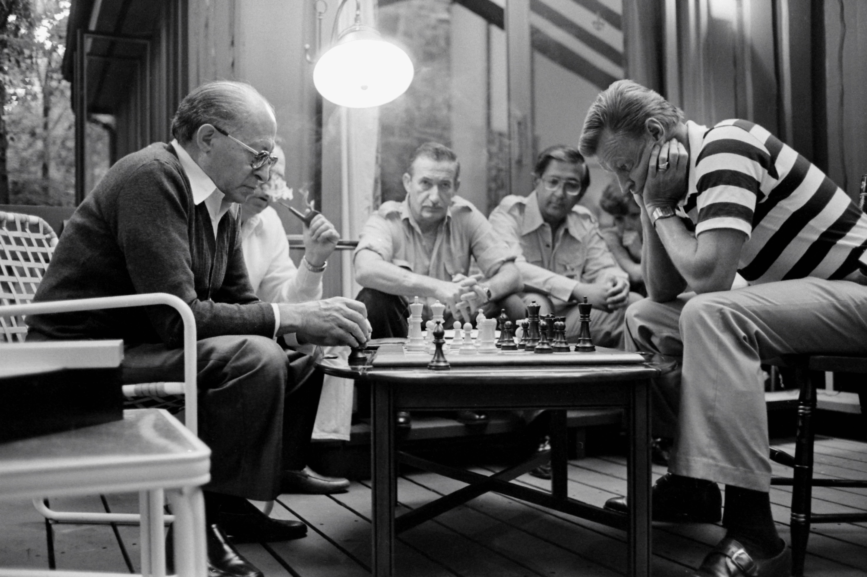 Israeli Prime Minister Menachem Begin engages U.S. National Security Advisor Zbigniew Brzezinski in a game of chess at Camp David